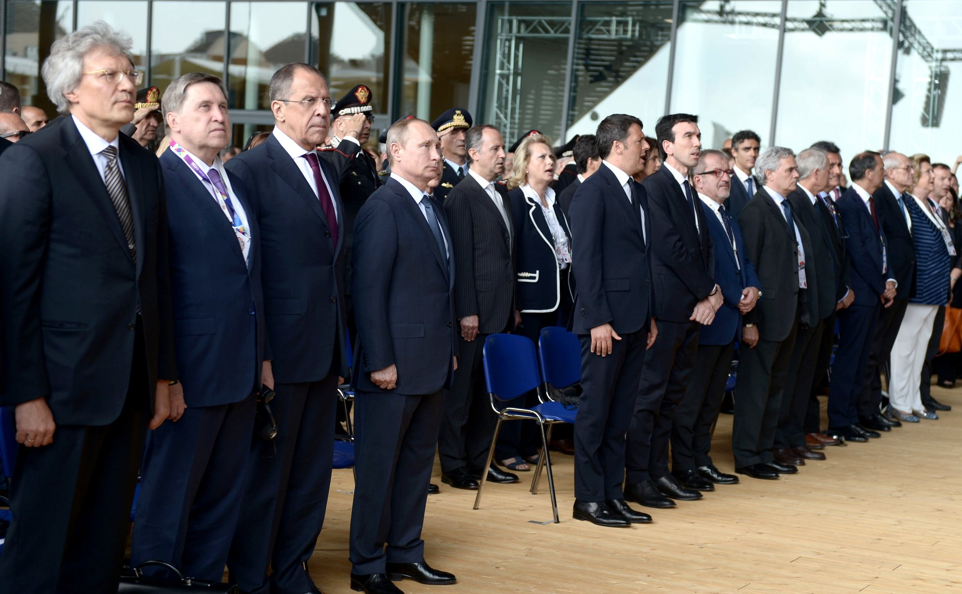 Russian President Vladimir Putin and Chairman of the Council of Ministers of Italy Matteo Renczi, at the opening ceremony of the Russian Federation's national day at the world universal exhibition Expo 2015